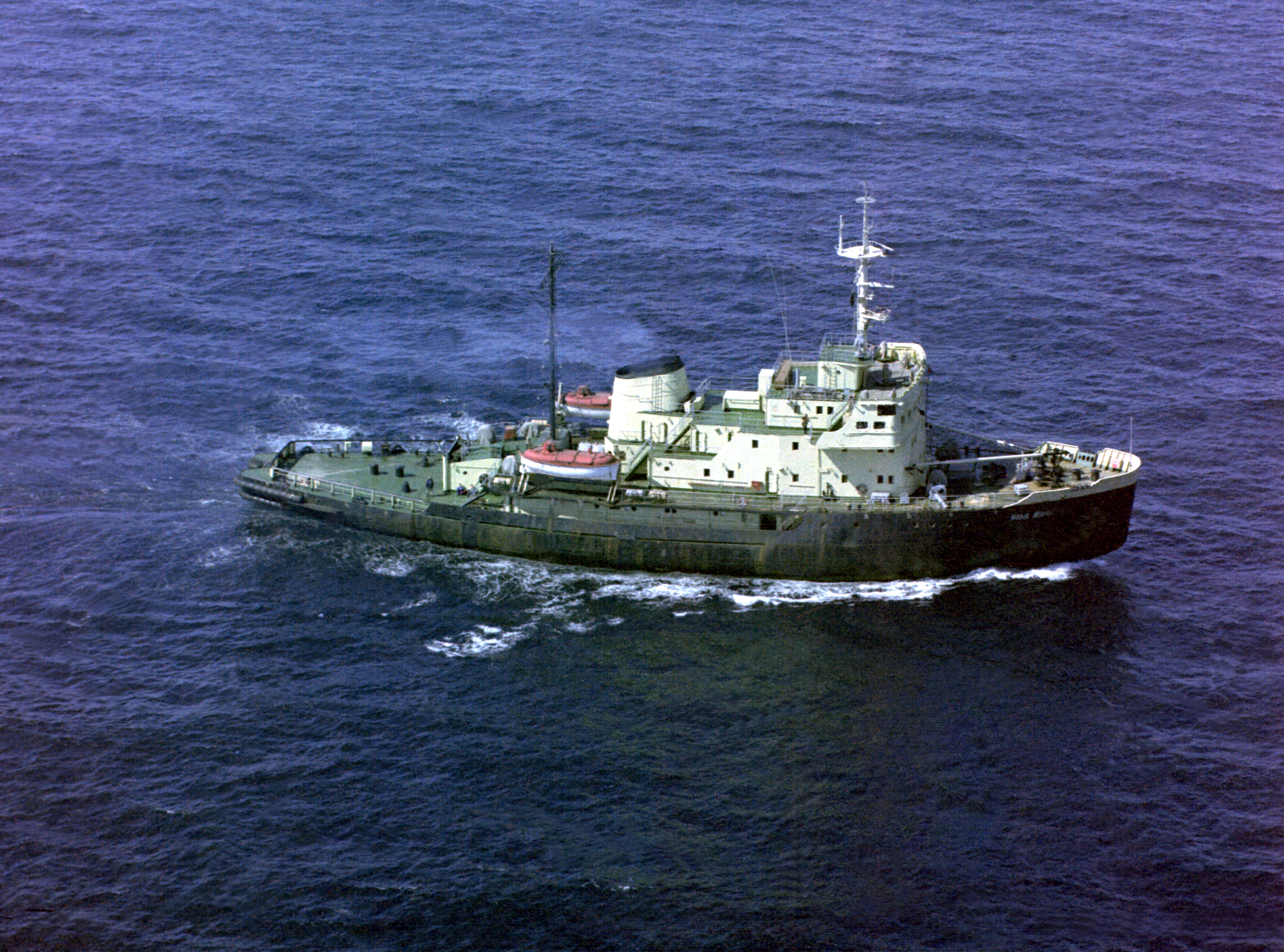 A starboard beam view of the Soviet Dobrynya Nikitich class icebreaker Il'ya Muromets underway.